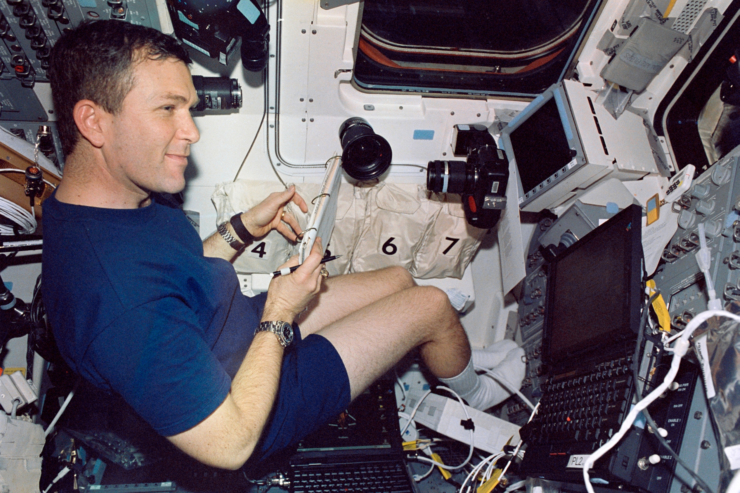 Astronaut Rick D. Husband, STS-107 mission commander, is pictured on the aft flight deck of the Space Shuttle Columbia.